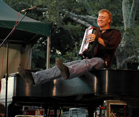 Bruce Hornsby Central Park, New York This work is free and may be used by anyone for any purpose. If you wish to use this content, you do not need to request permission as long as you follow any licensing requirements mentioned on this page.